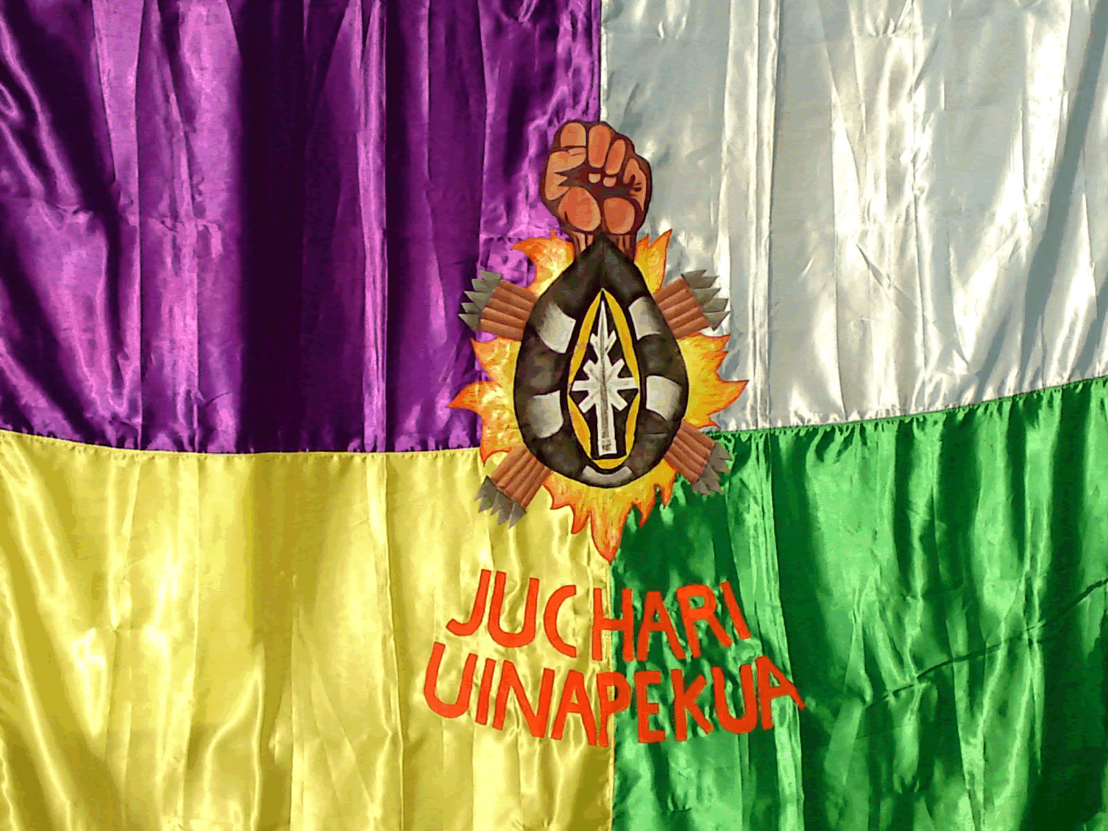 Purepecha flag of Culture P'urhépecha, Michoacan, Mexico.